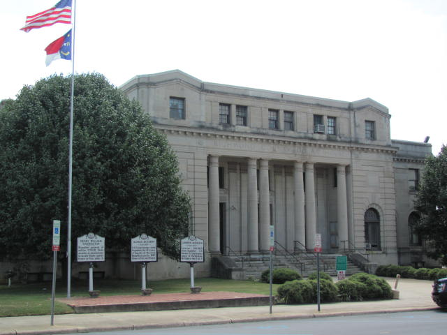 Richmond County Courthouse, Franklin St. between Hancock and Lee Sts. Rockingham